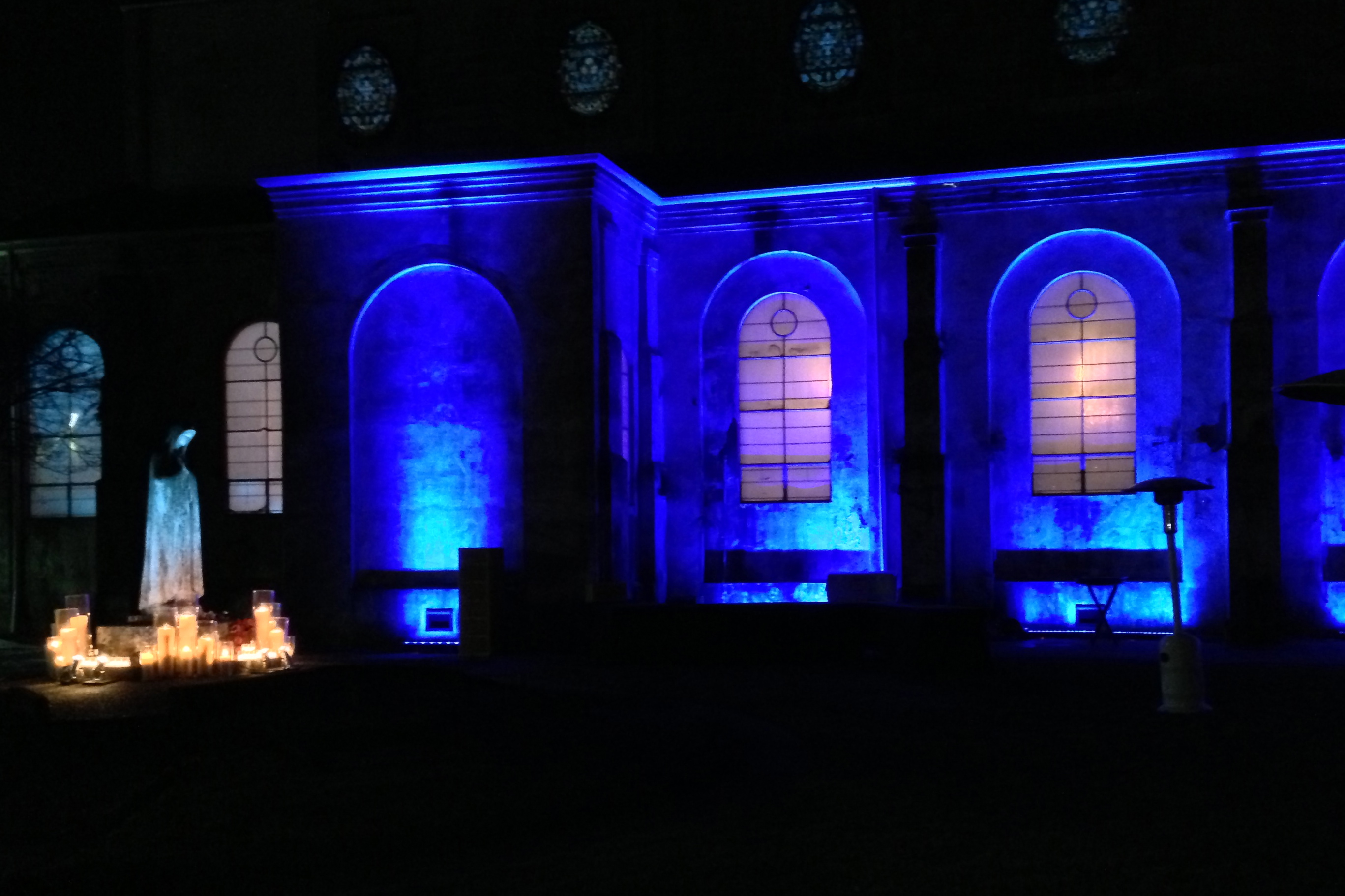 At Holy Trinity Church, now called Marigny Opera House, New Orleans